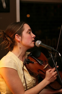 Cheyenne Mize and Ben Sollee performing at Hemma Hos Fanny